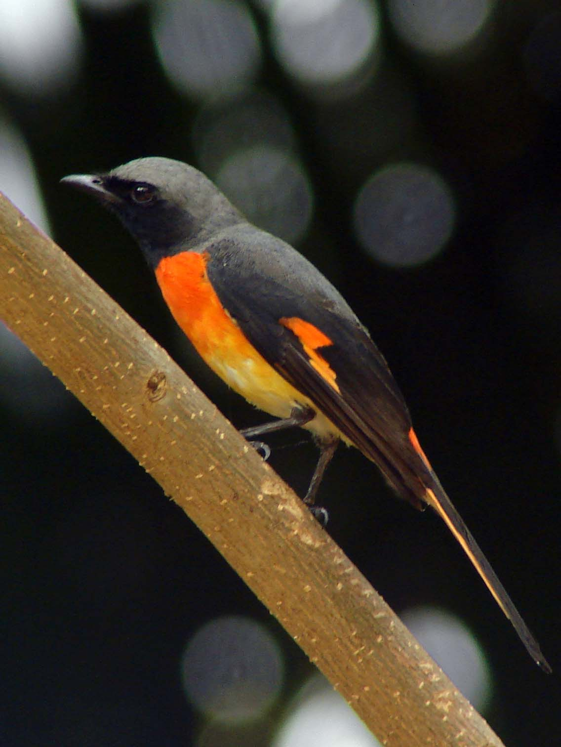 Small Minivet in Sri Lanka.